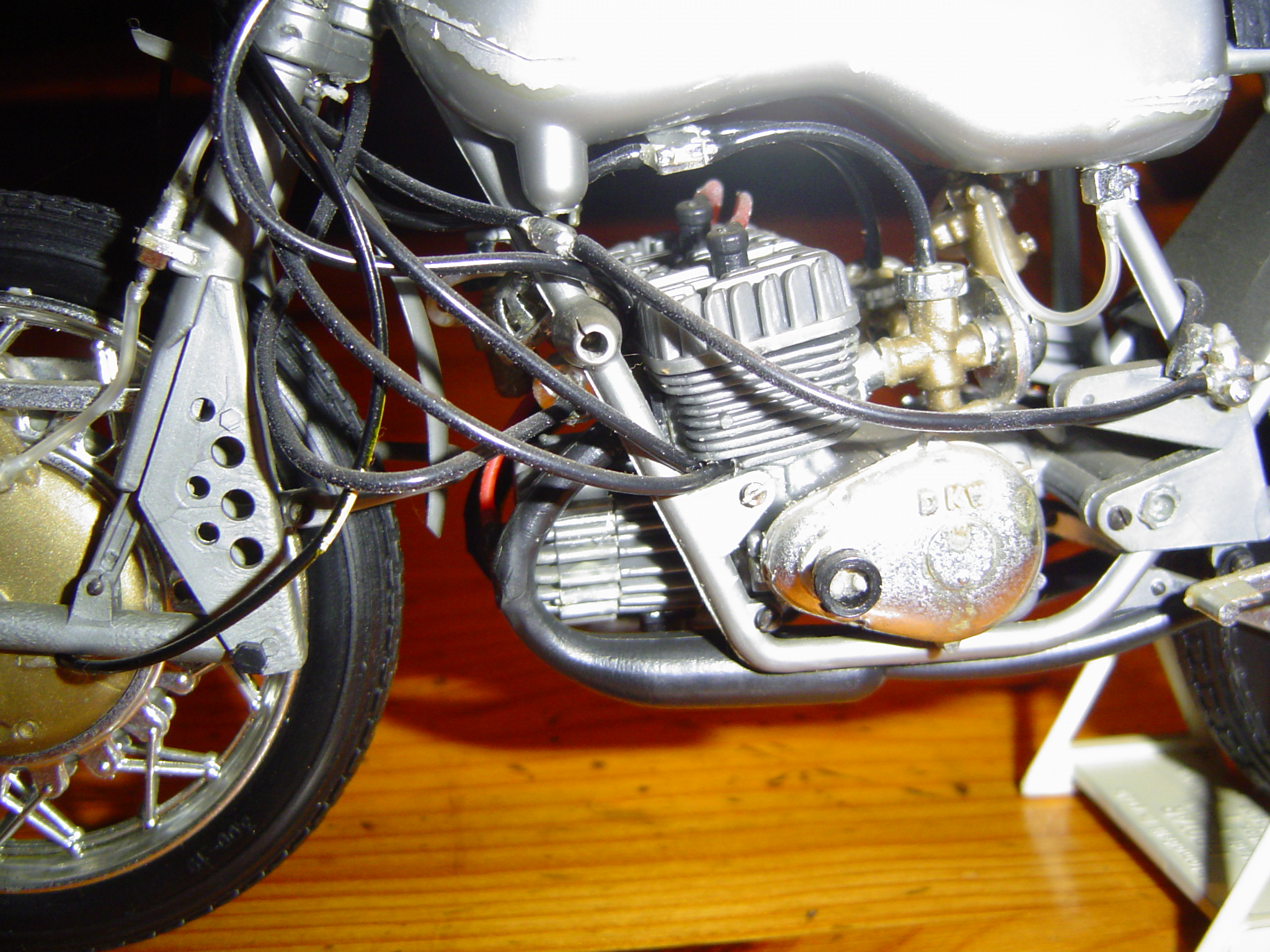 Motor on a model DKW 350 motorcycle.